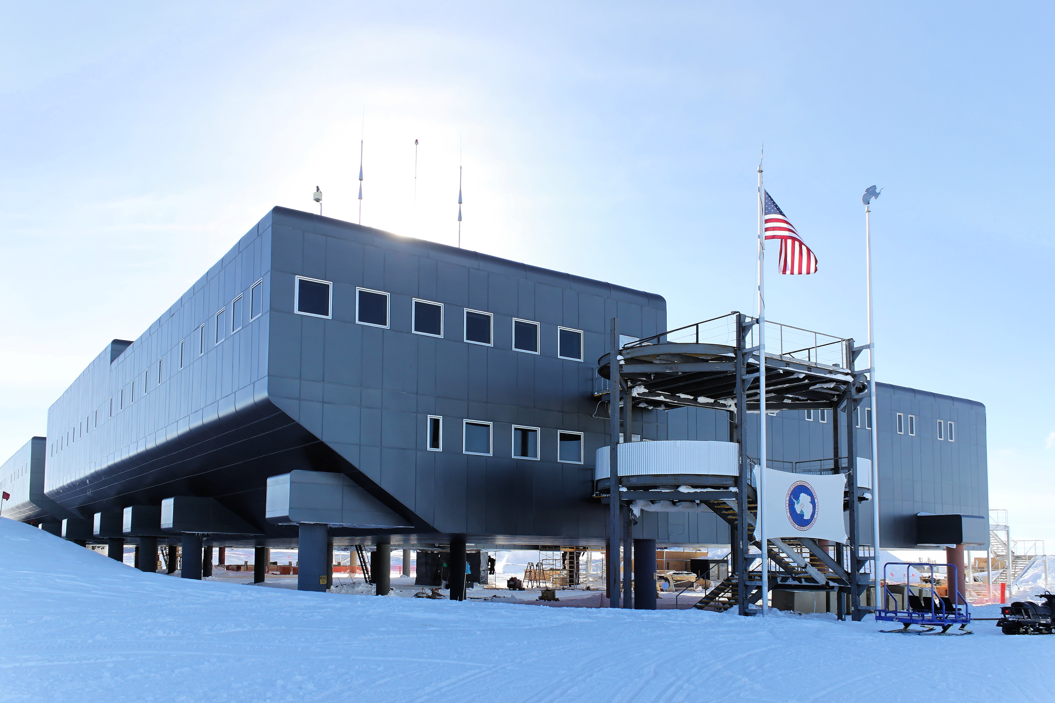 A view of the current Amundsen-Scott South Pole Station from 2009. This is facing Destination Alpha, one of two main entrances to the station.